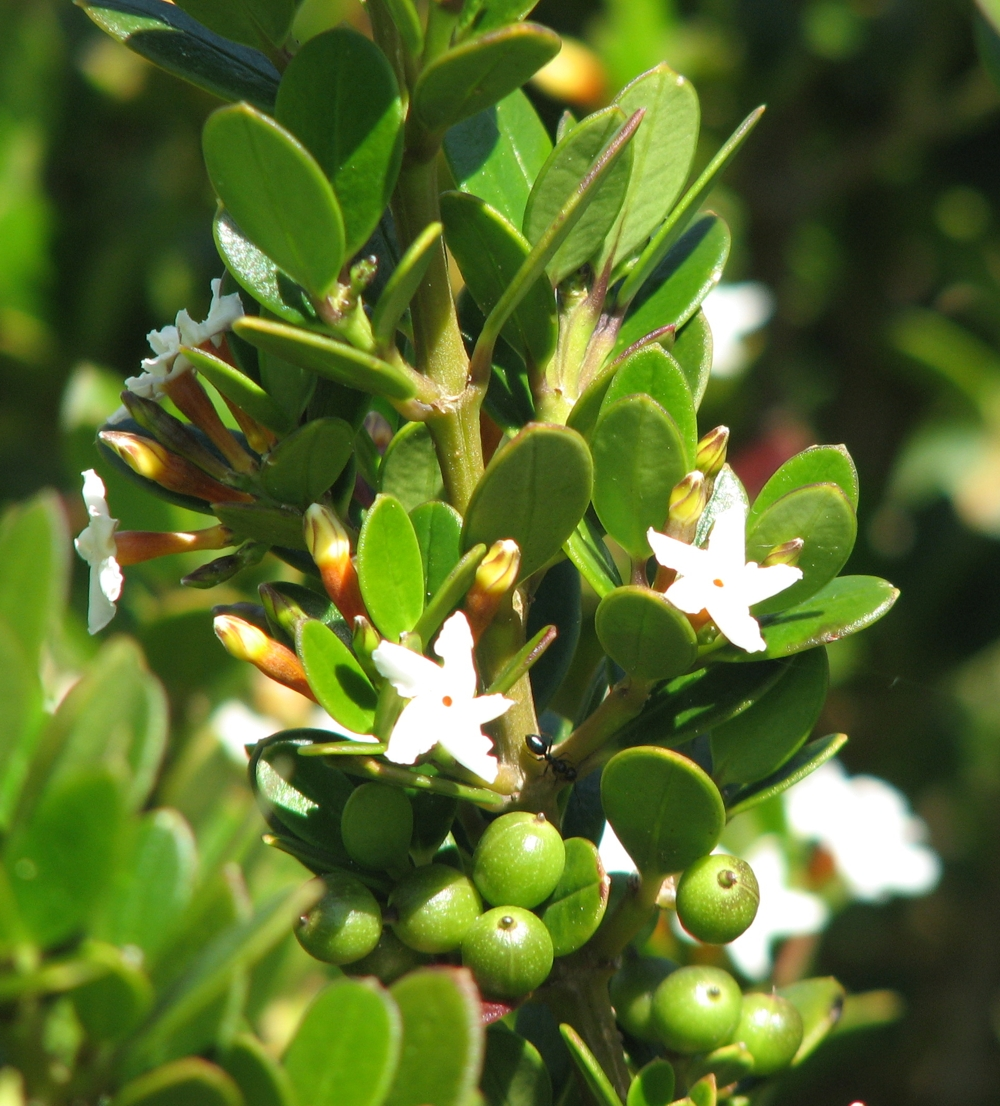 Alyxia buxifolia, Loch Ard Gorge, Victoria, Australia